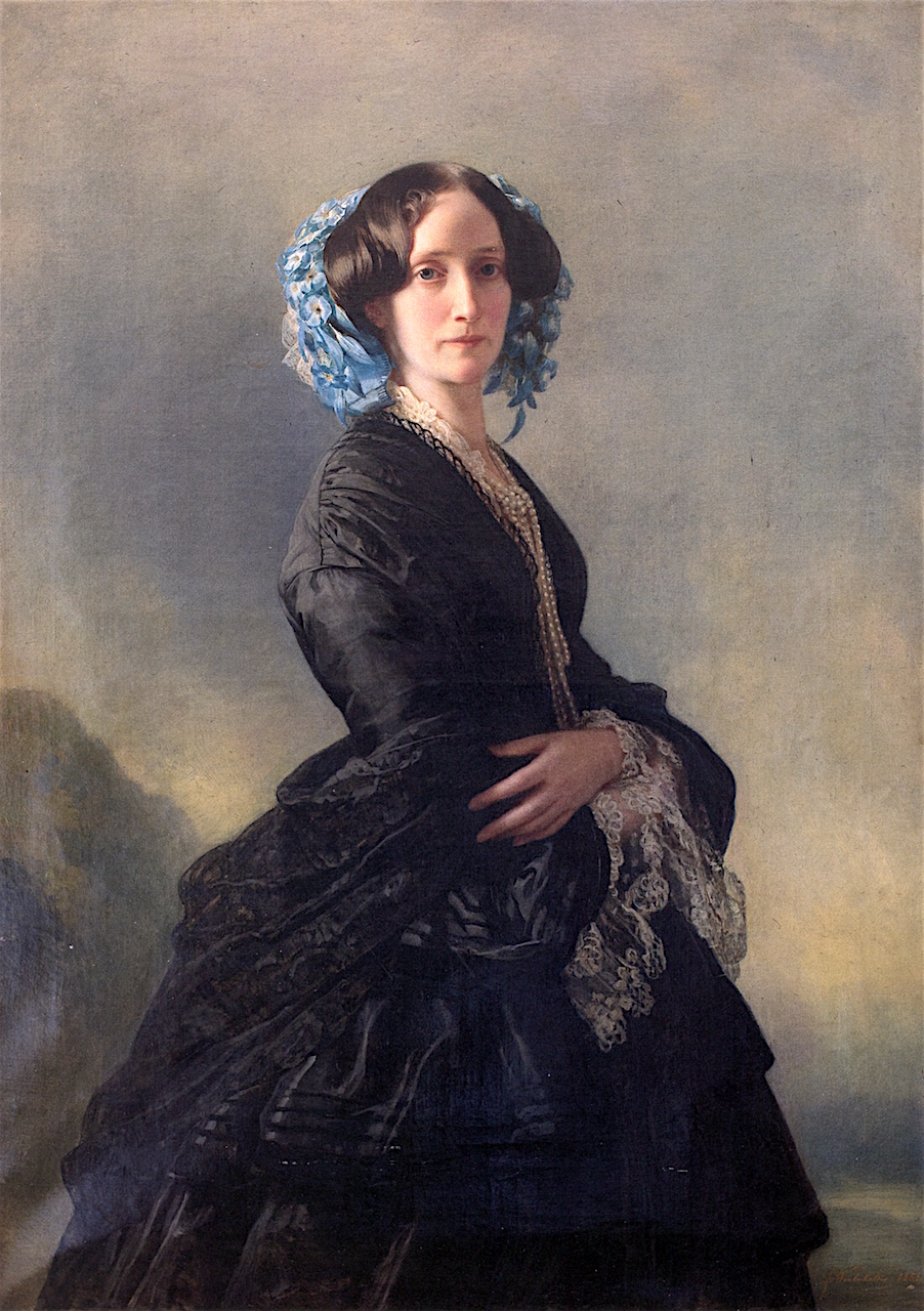 Sophie Wilhelmine Großherzogin von Baden (1801-65, née Princess of Sweden)